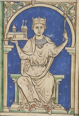 King Stephen